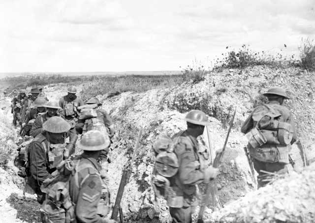 AWM caption : "Members of the 6th Australian Infantry Brigade moving along a communication trench at 1.30 p.m. in the renewed assault upon Mont St Quentin, which resulted in the final capture of this highly important position. The captures for the three days fighting for Mont St Quentin and Peronne amounted to 1666 prisoners, six guns and many machine guns." Comment : Part of Battle of Mont St Quentin.